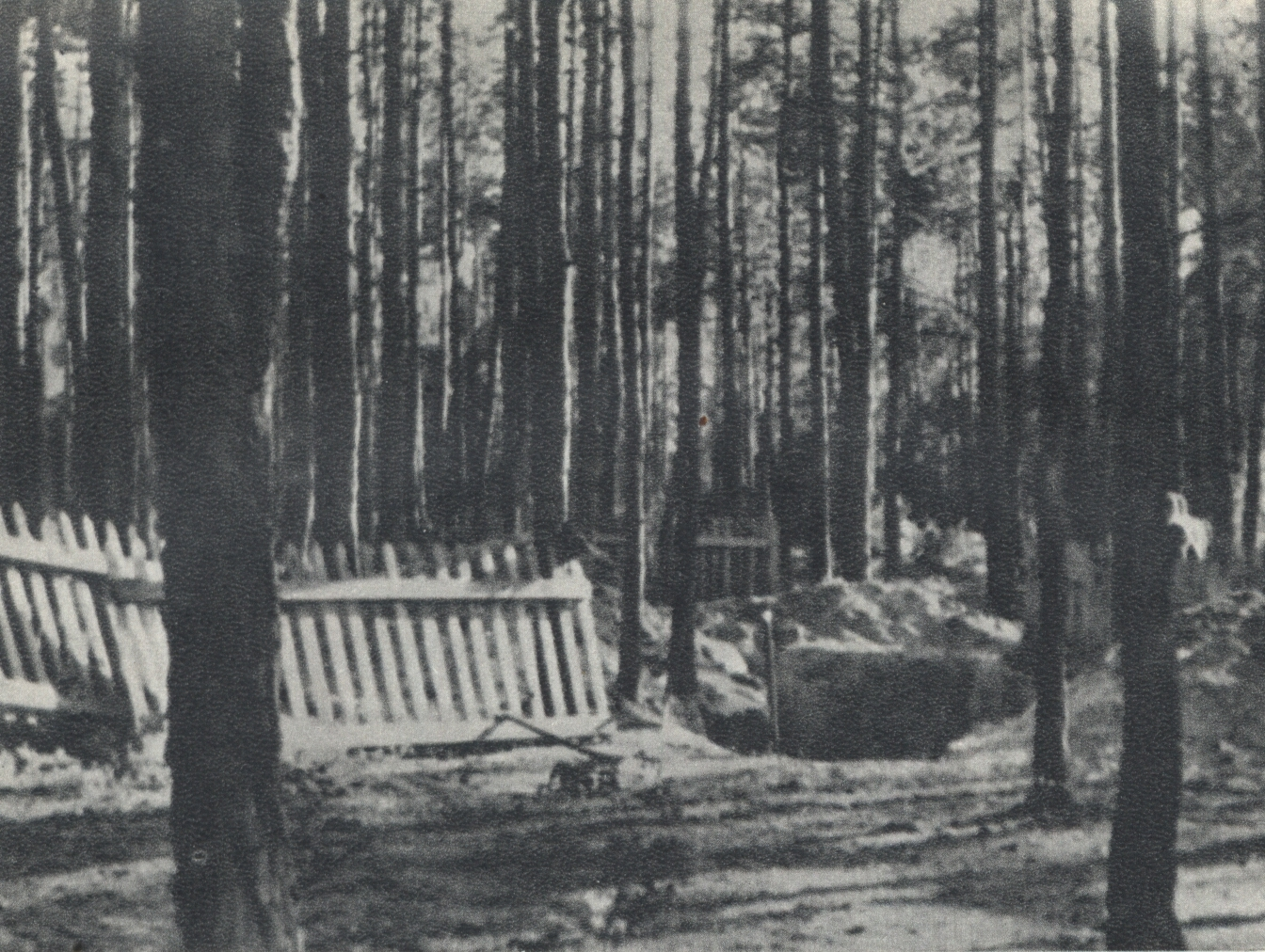 Exhumation of bodies of victims massacred by Nazi-Germans at the beginning of 1943 in the Lasy Chojnowskie (Chojnowskie Forest) near Warsaw. Photo taken in summer 1946.